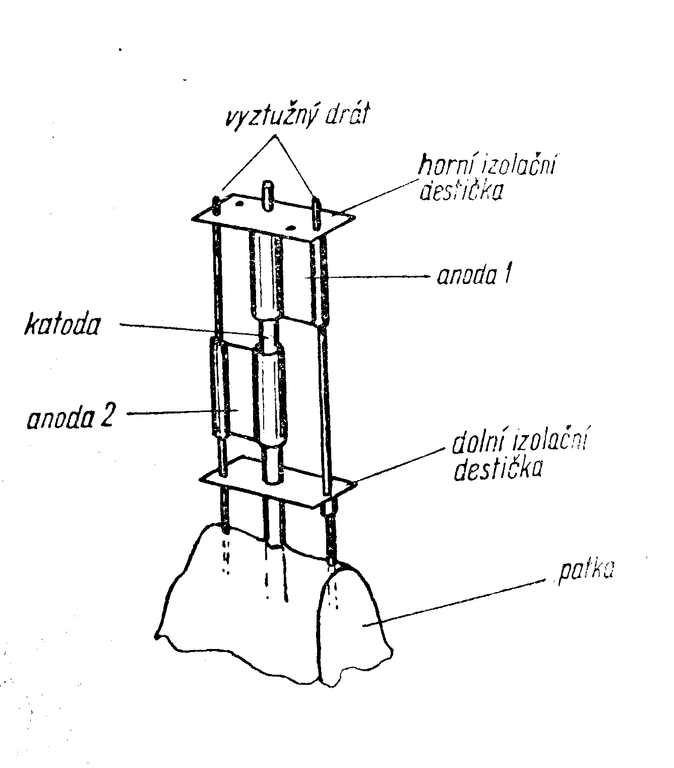 AB2 duodiode structure